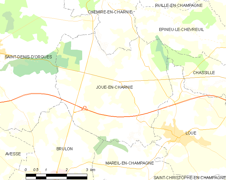 Map of French municipality